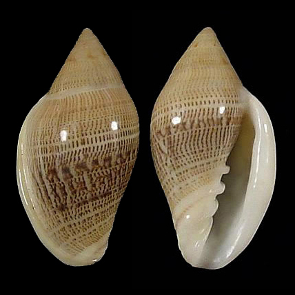 Species: Marginella belcheri Hinds, 1844 Specimen: Luis Ferreira collection data: trawled by shrimpers, 80-100m off Cabo Blanco, Mauritania